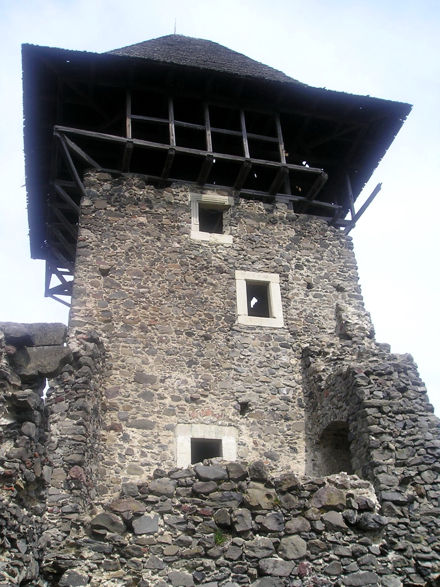 Ukraine. Castle of Nevitske.